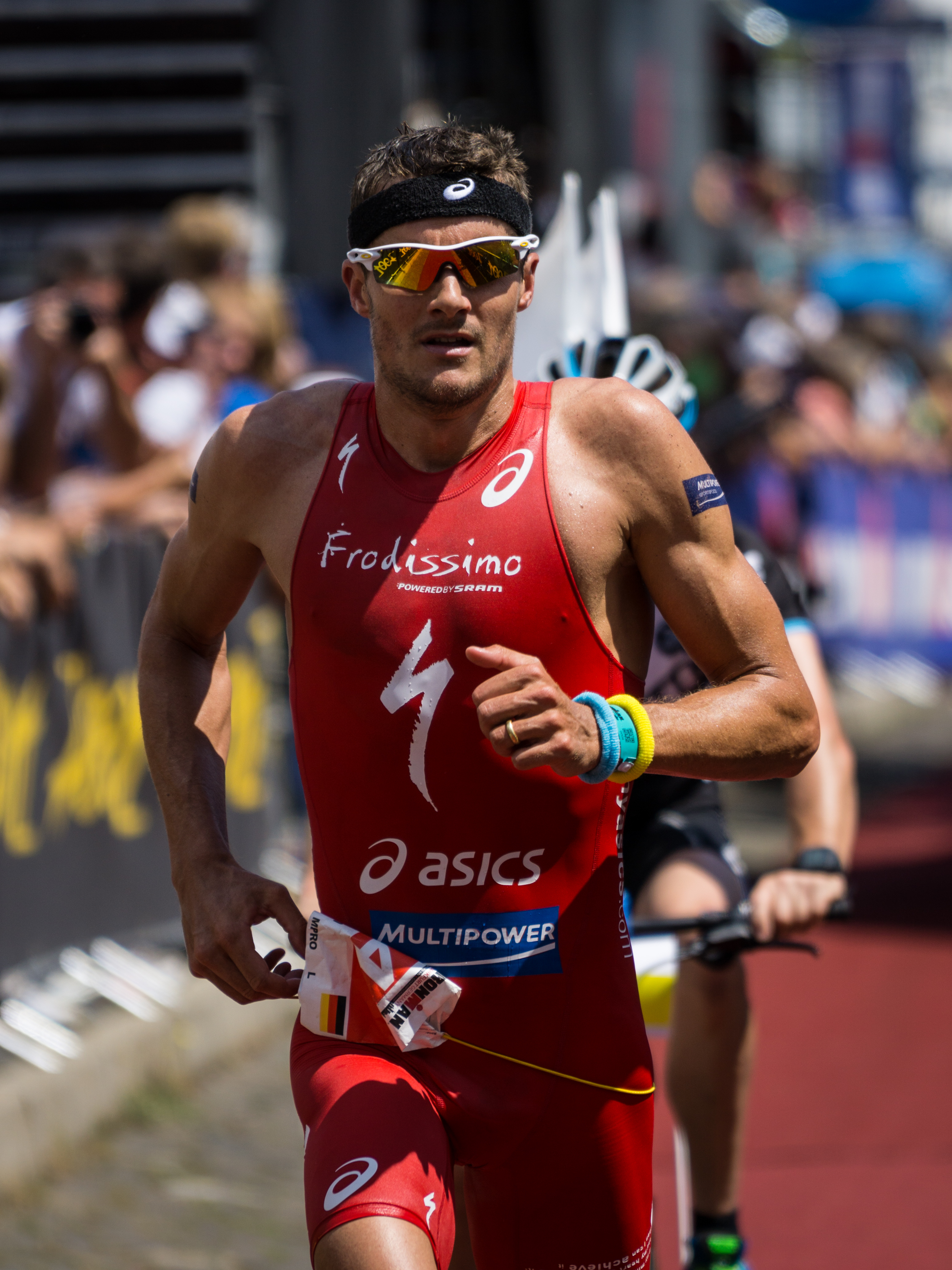 Jan Frodeno at the 2014 Ironman European Championship in Frankfurt am Main.